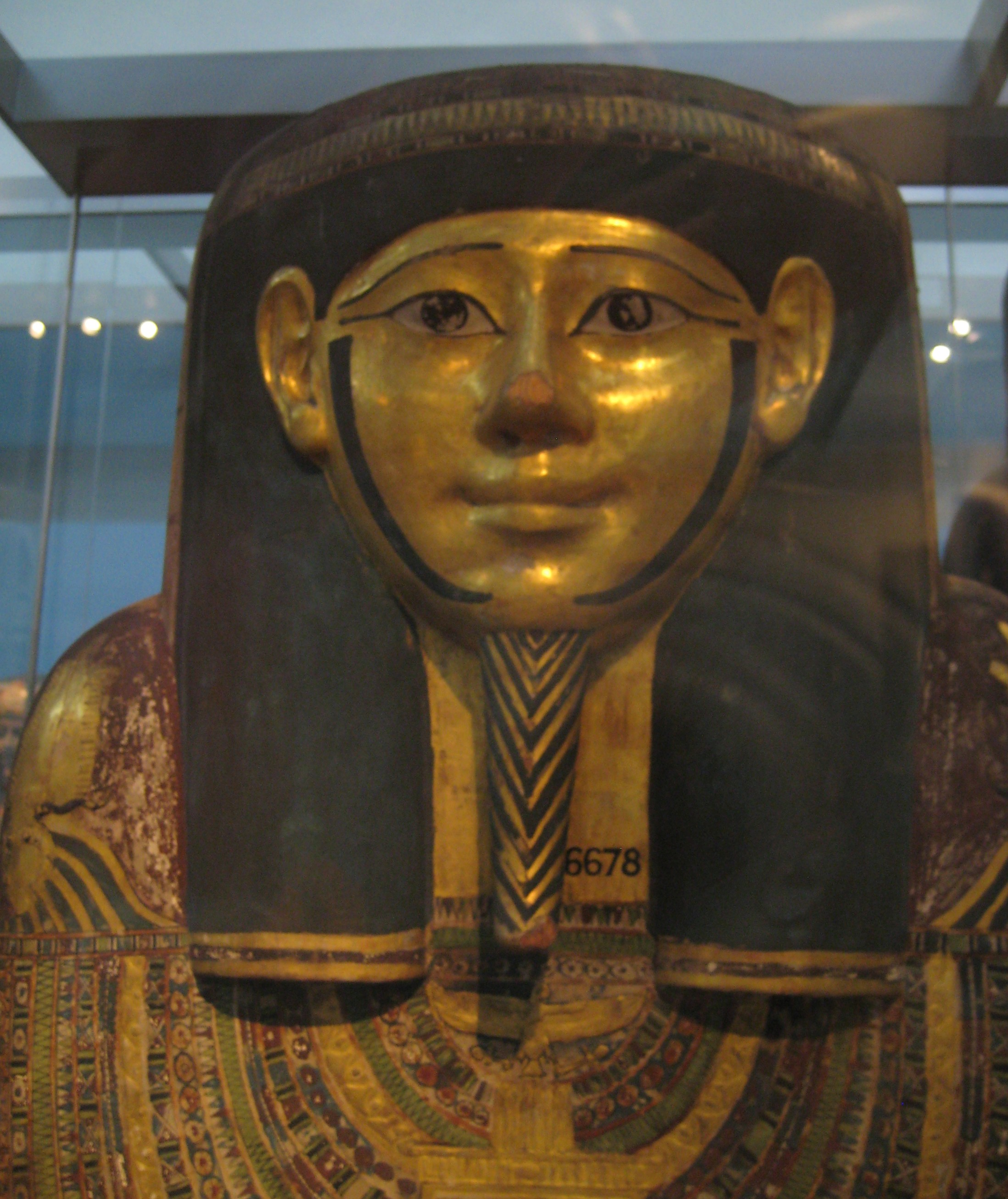 Base and lid of the anthropoid wooden inner coffin of Hornedjitef, son of Nekhthorheb.